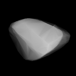 3D convex shape model of 784 Pickeringia, computed using light curve inversion techniques. J. Hanuš, J. Ďurech, M. Brož, B. D. Warner (June 2011). "A study of asteroid pole-latitude distribution based on an extended set of shape models derived by the lightcurve inversion method". Astronomy and Astrophysics 530: A134. ISSN 0004-6361. arXiv